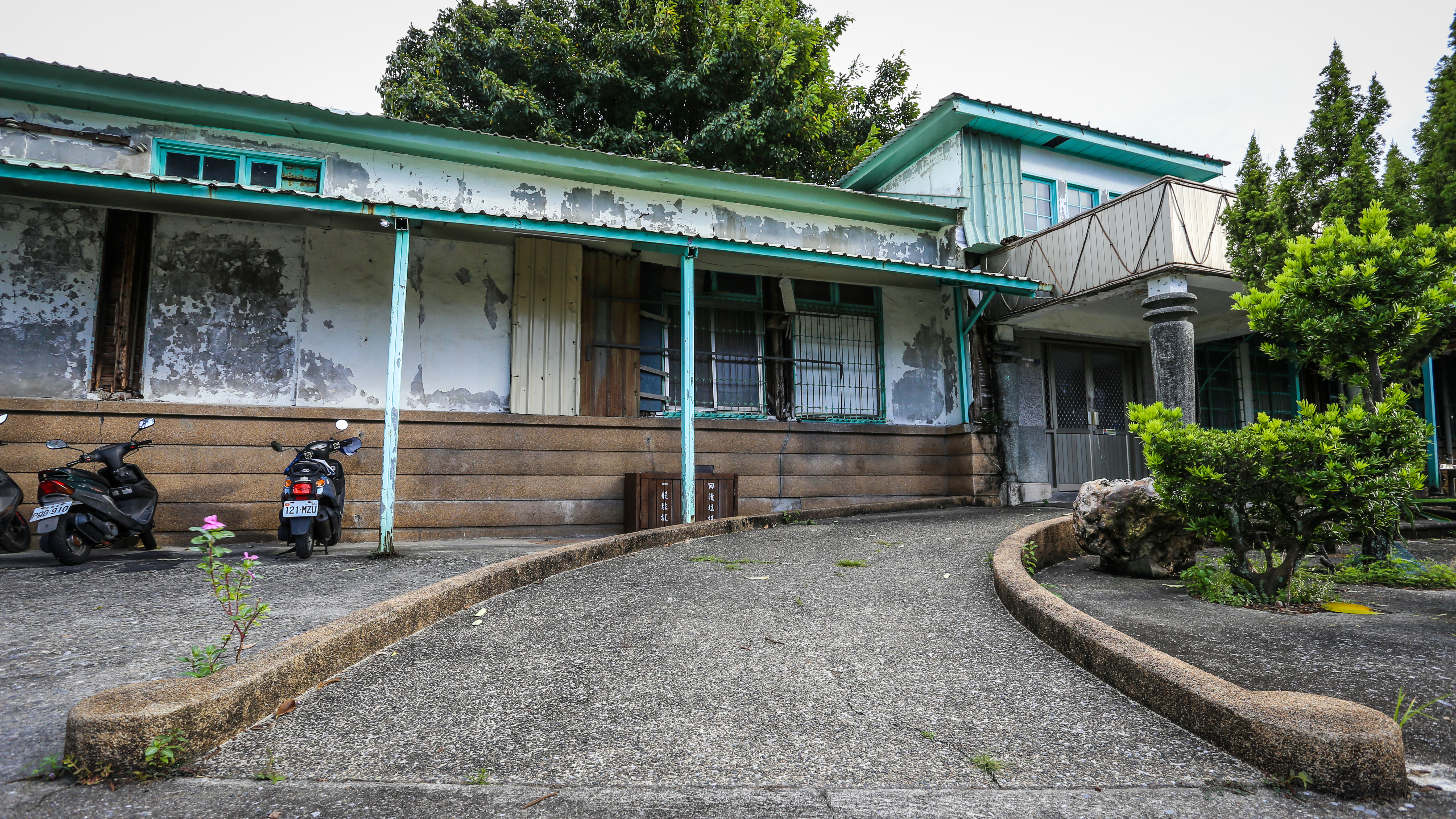 Former Hualien Railway Hospital, Hualien City, Taiwan.